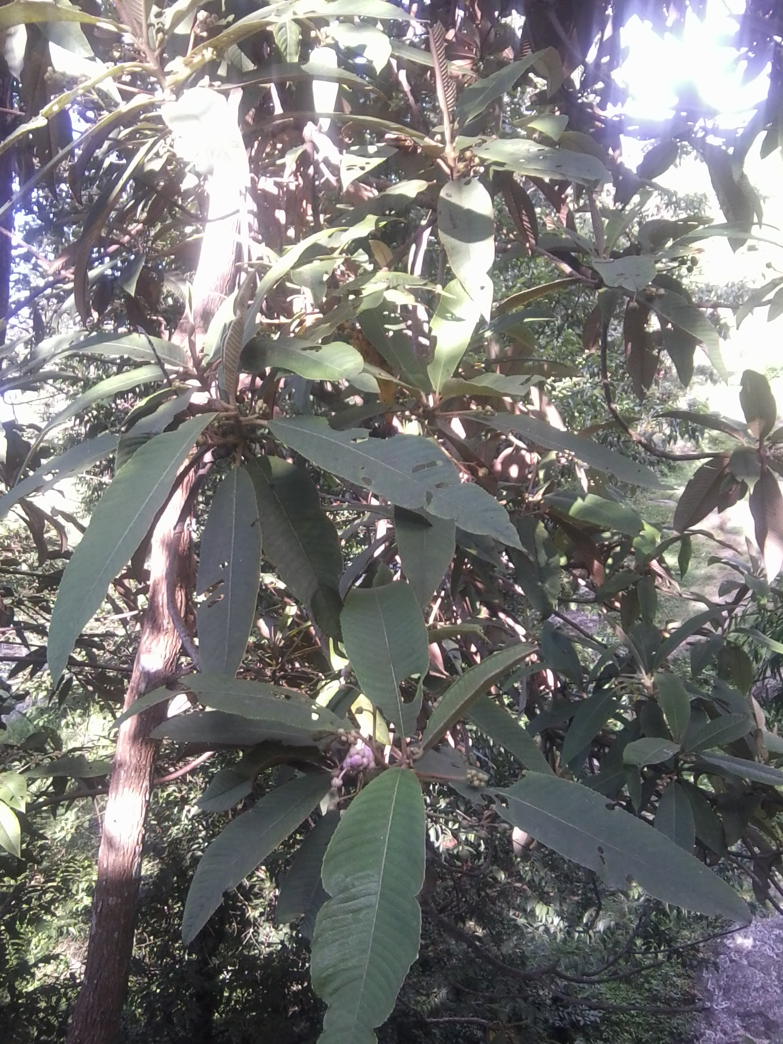 Saurauia napalensis in Phoolbari.